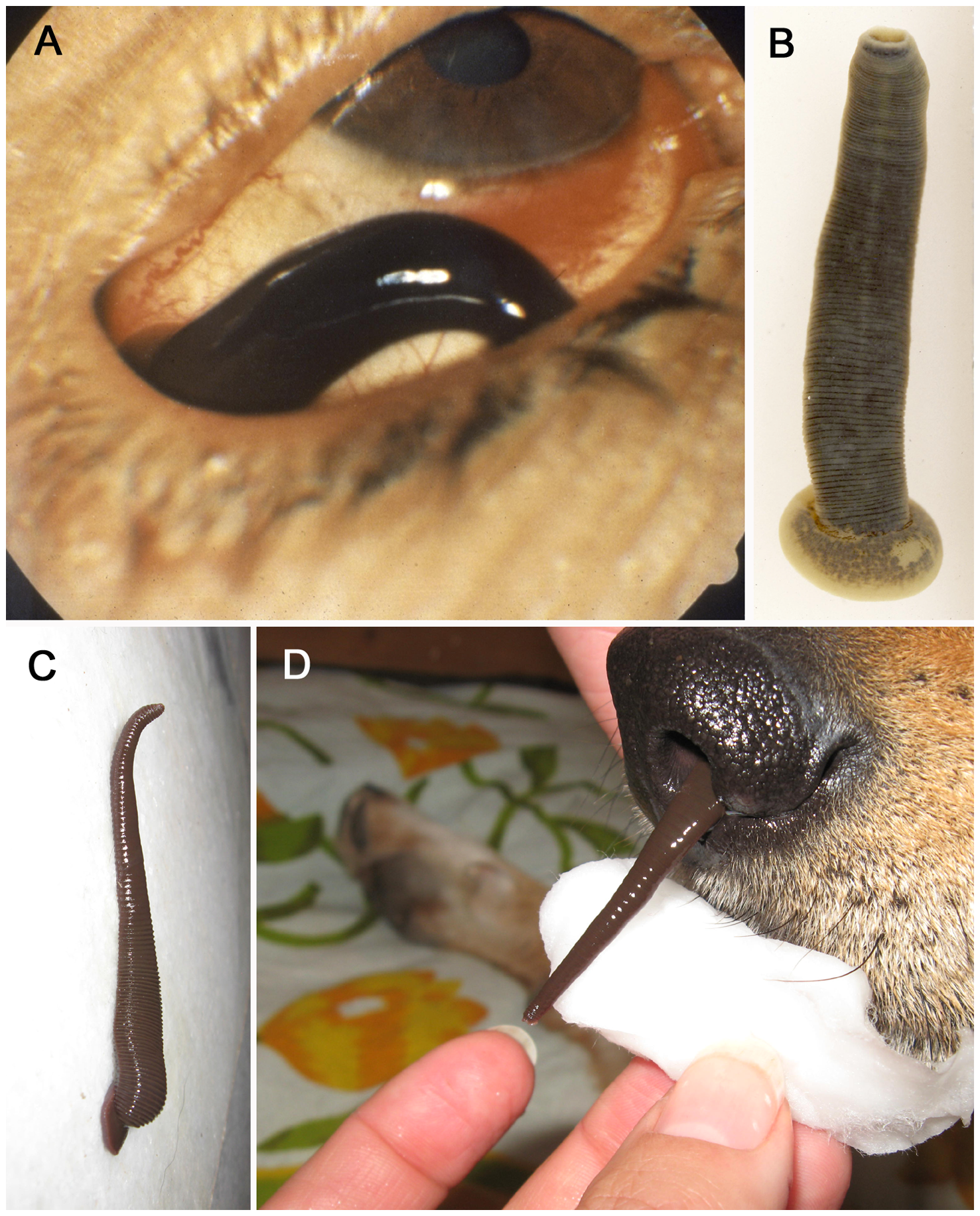 Mucosally invasive hirudinoid leeches. Known from a wide variety of anatomical sites including eyes (A) as in this case involving Dinobdella ferox (B), mucosal leech species, as in a case involving Myxobdella annandalei (C), more frequently feed from the nasopharyngeal surfaces of mammals (D).